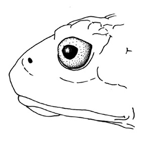 Head shape in lateral view of Osornophryne angel female, QCAZ 43560.